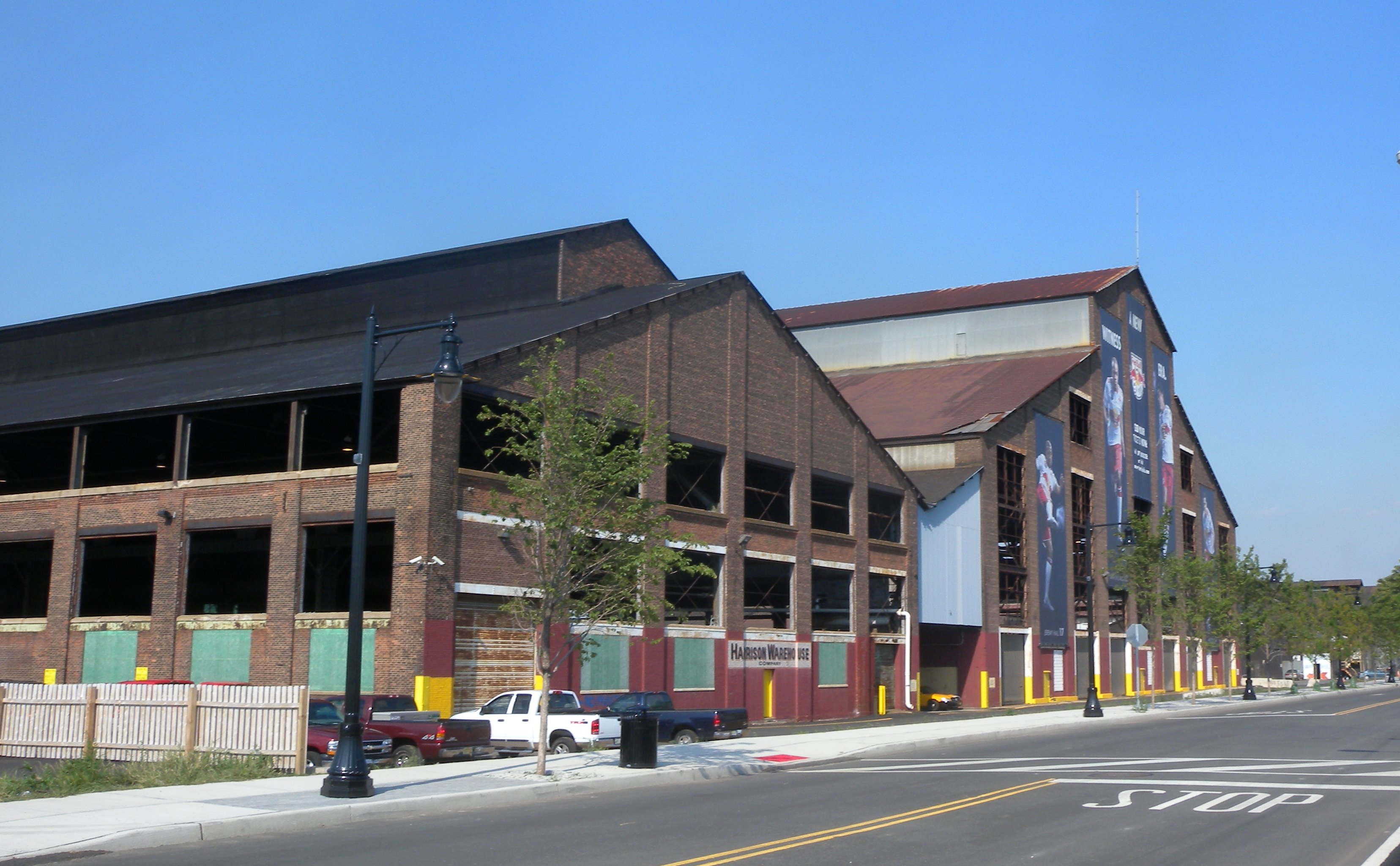 Looking east at Harrison Warehouse Co on a sunny afternoon.